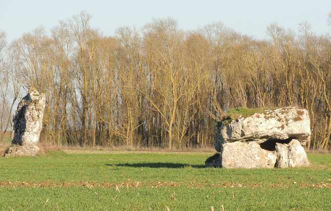 menhir and dolmen du plat à Gargantua in a field in front of a wood This building is indexed in the Base Mérimée, a database of architectural heritage maintained by the French Ministry of Culture, under the references PA00098624 and PA00098625 .